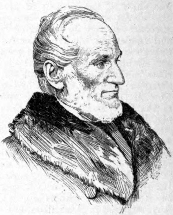 Portrait drawing of U.S. political economist Amasa Walker